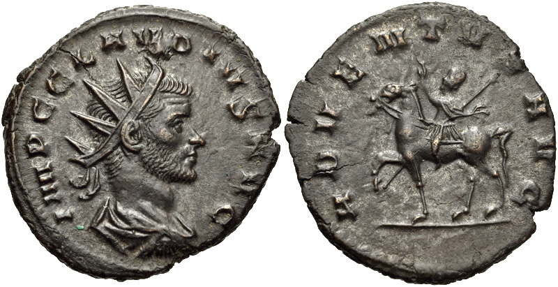 Claudius II Gothicus. AD 268-270. Antoninianus (21mm, 3.17 g, 5h). Rome mint. 1st emission, September-November AD 268. IMP C CLAVDIVS AVG, radiate, draped, and cuirassed bust right, seen from behind ADVENTVS AVG, Claudius on horseback riding left, holding scepter and raising hand. Normanby 592; RIC V 13; Mairat 65-8.